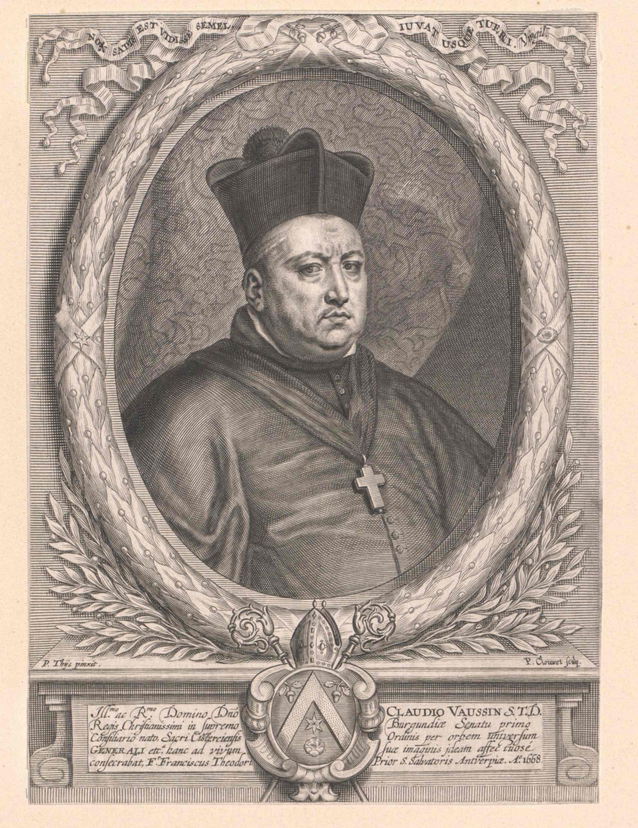 Portrait of Claude Vaussin, abbot of Cîteaux (1643-1670).